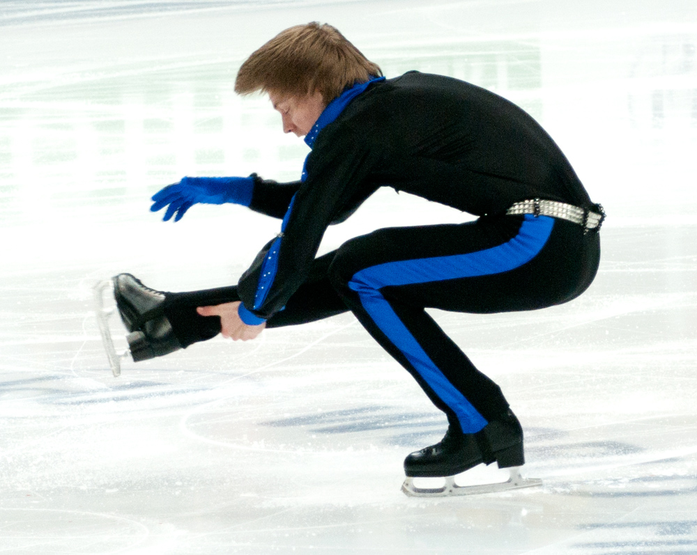 2011 World Figure Skating Championships, free skating.